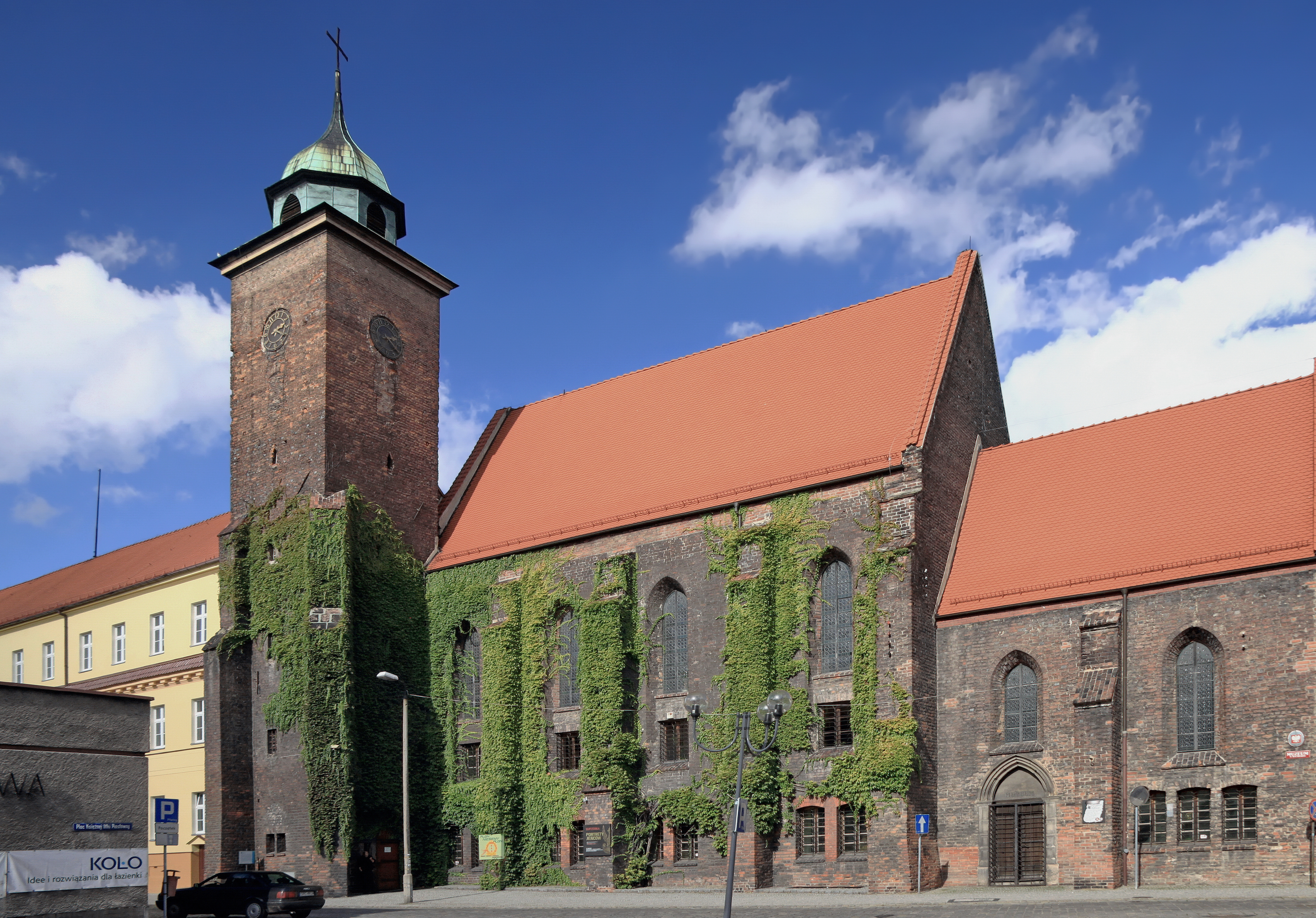 Racibórz, former Holy Spirit church, now museum, build in 14th century, 1936